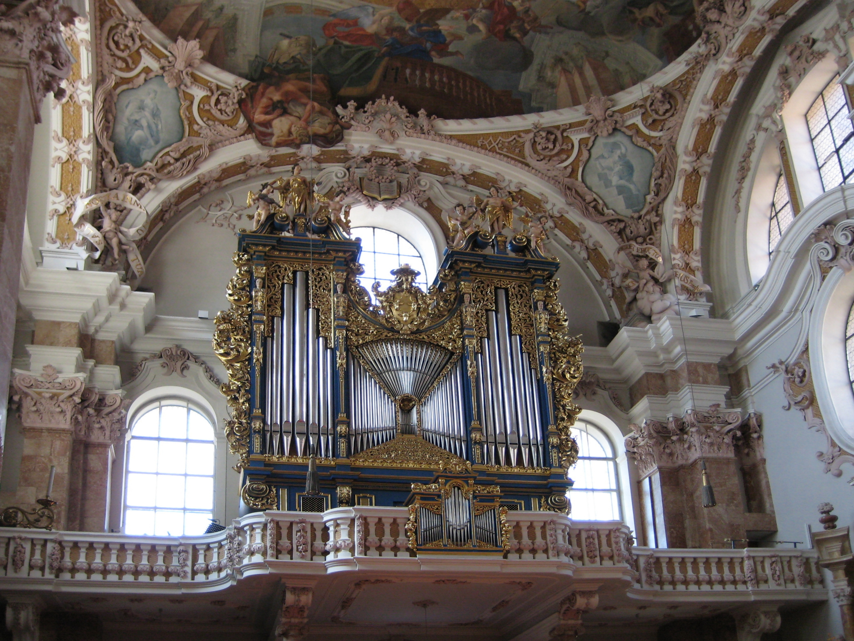 Cathedral St. Jakob in Innsbruck, Tyrol